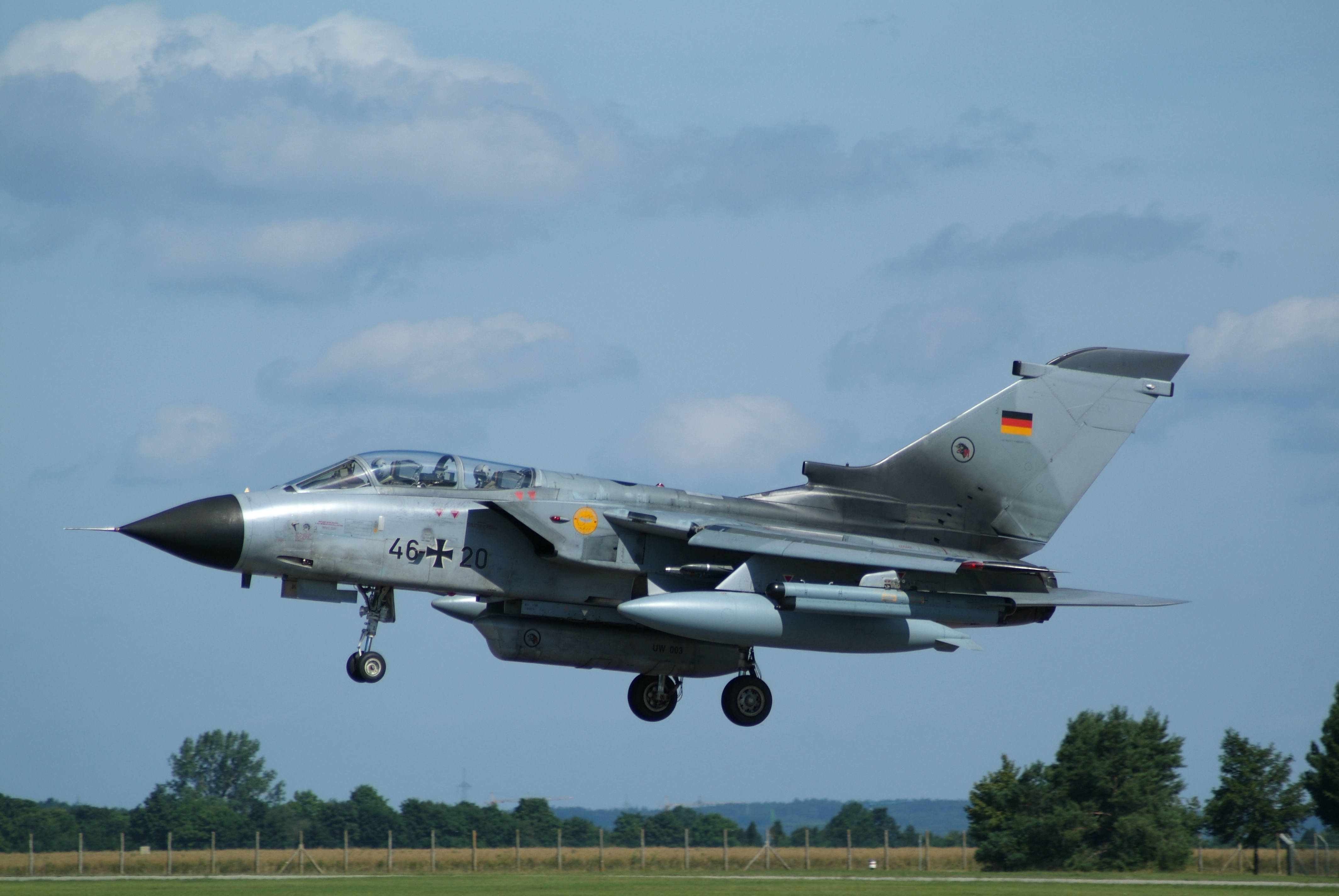 This is a visiting Panavia Tornado Recce from AG 51 Schleswig-Jagel. The yellow circular badge on the air intake denotes service in Afghanistan.